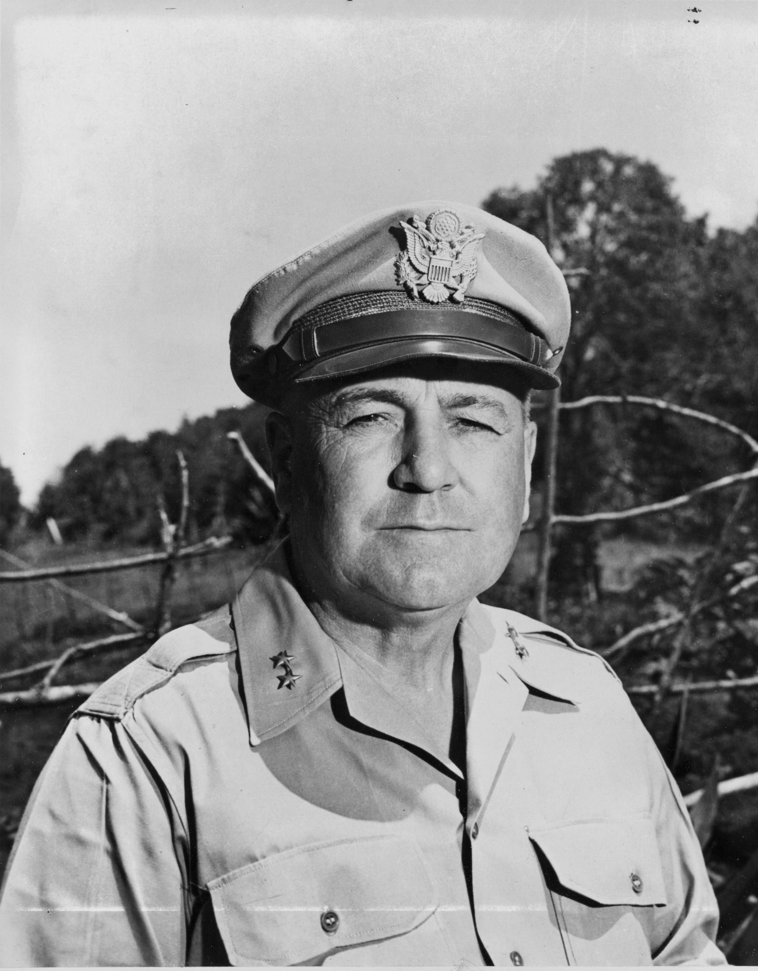 Major General Frederick Gilbreath, commander of the South Pacific Base Command. Official U.S. Signal Corps photograph.